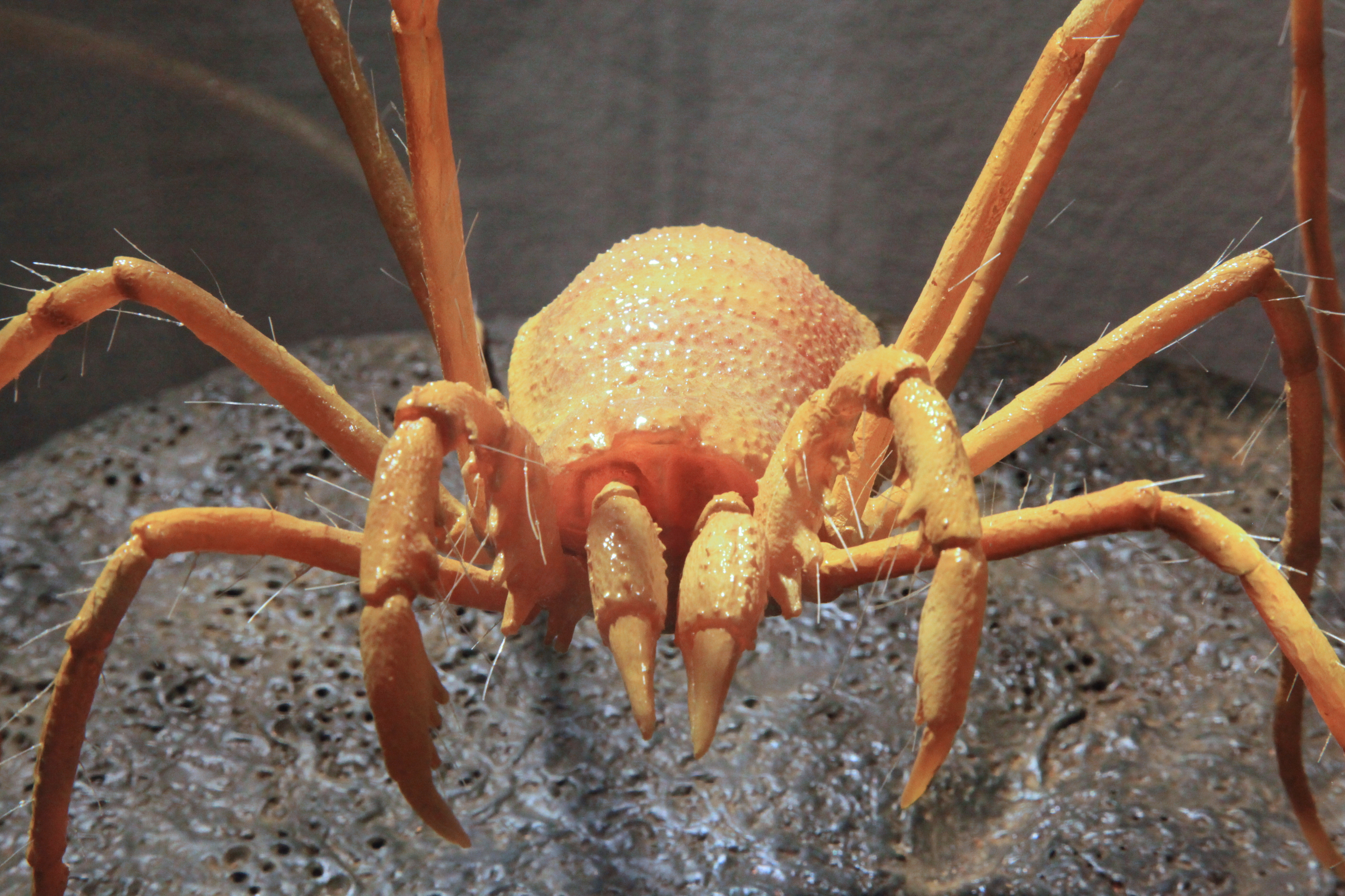 Heavily magnified model of the tiny Maiorerus randoi Rambla 1993, a species only known from this one cave: Cueva del Llano in Villaverde, La Oliva, Fuerteventura, Canary Islands